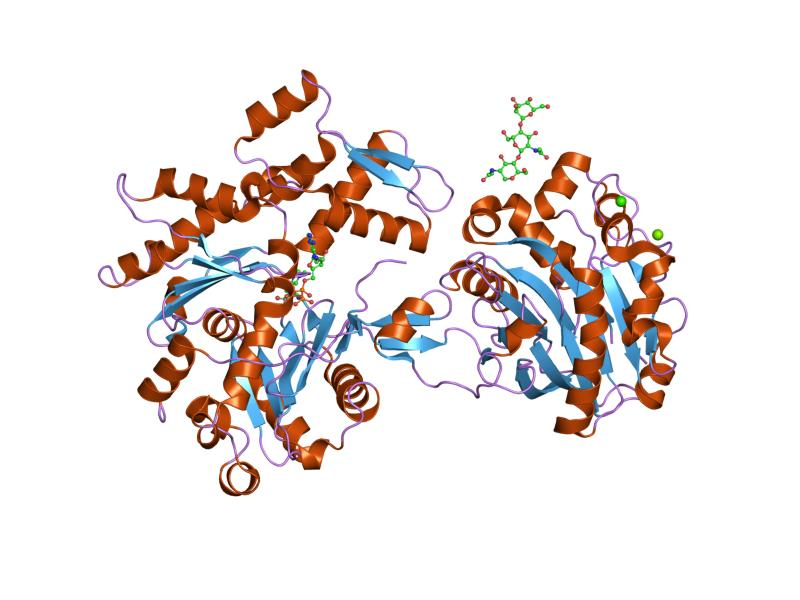 Cartoon representation of the molecular structure of protein registered with 2d1k code.